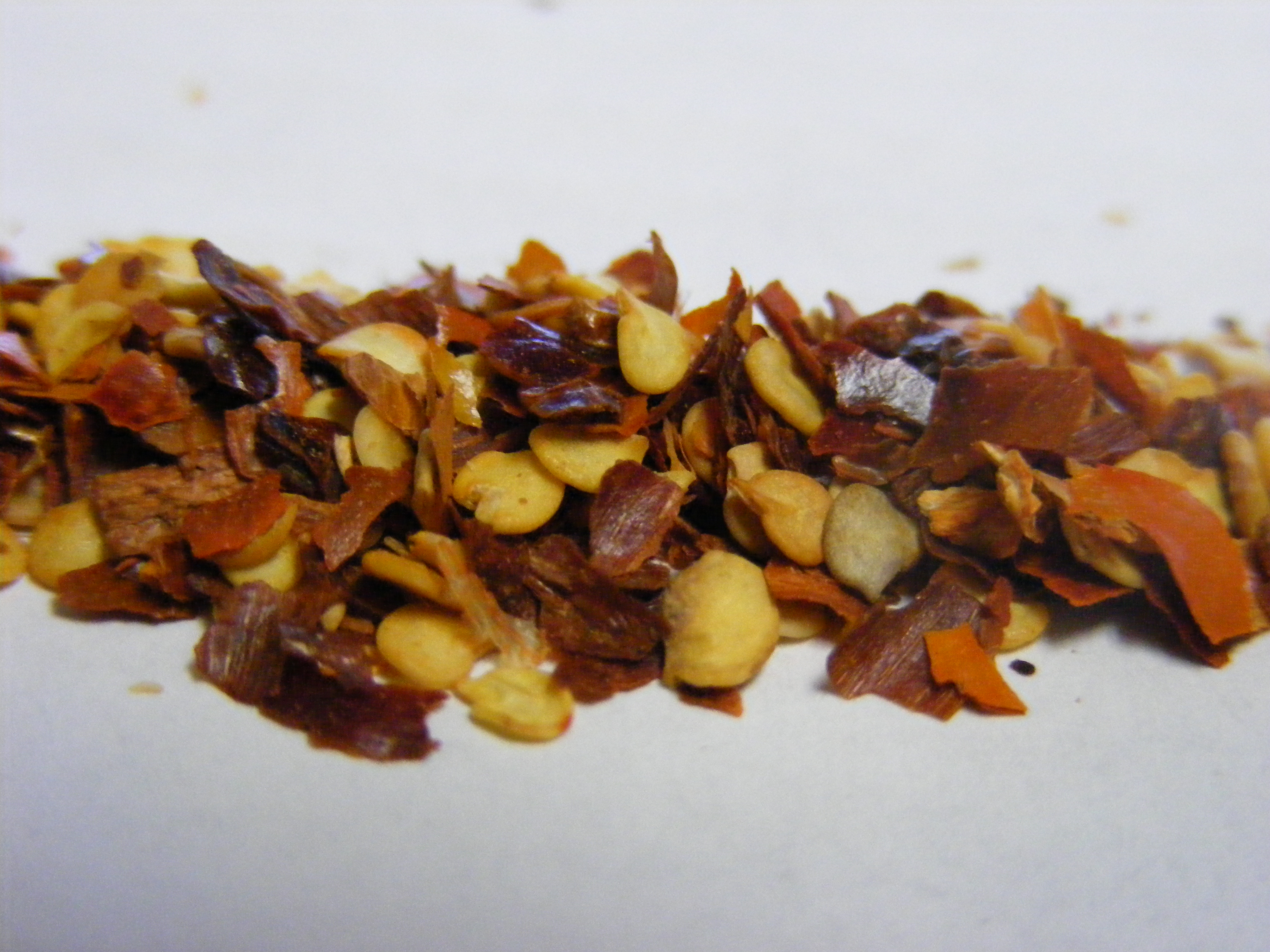 A closeup view of red pepper flakes, commonly used on American pizza.